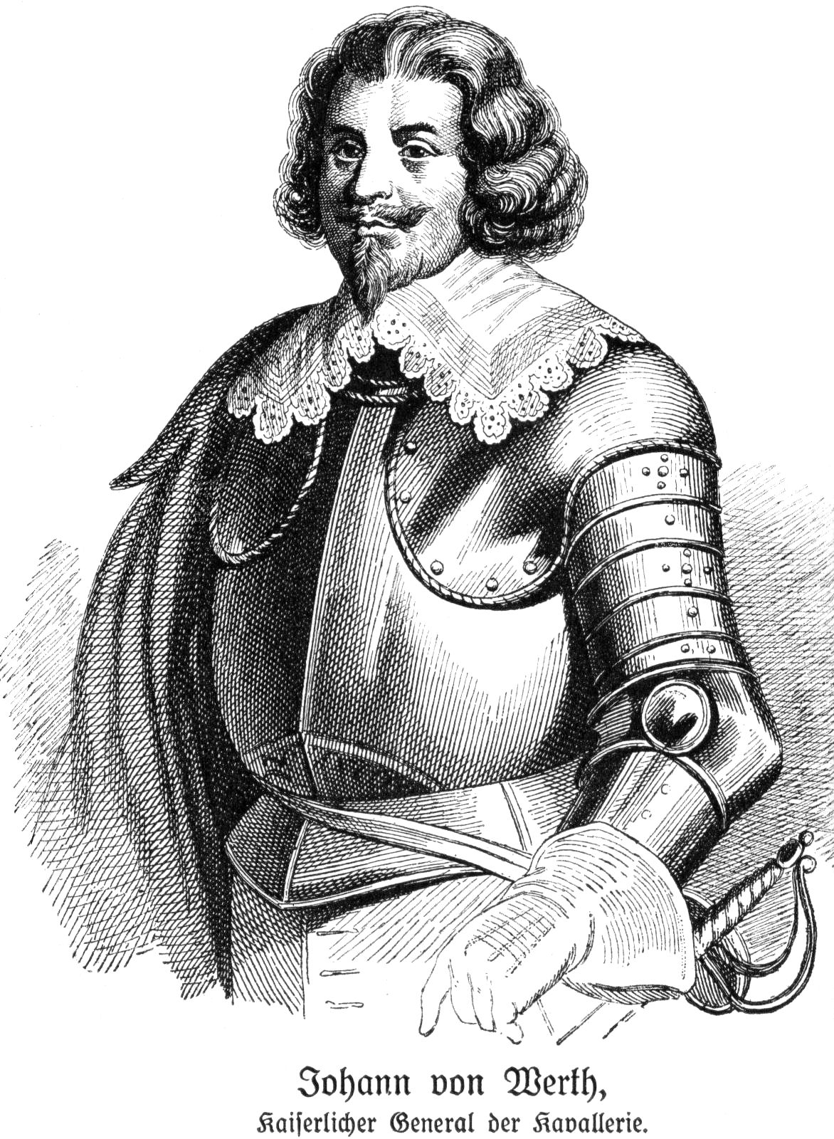 Count Johann von Werth, German general of cavalry in the Thirty Years' War